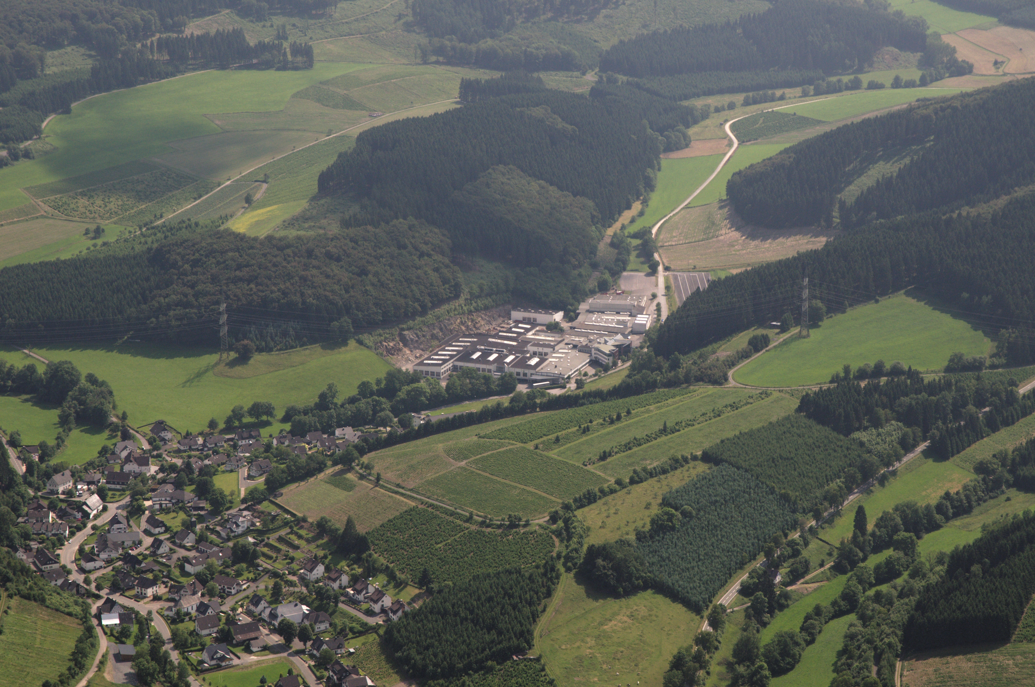 Fotoflug Sauerland-Ost: Kückelheim, Firma Kettenwulf The making of this document was supported by the Community-Budget of Wikimedia Germany.